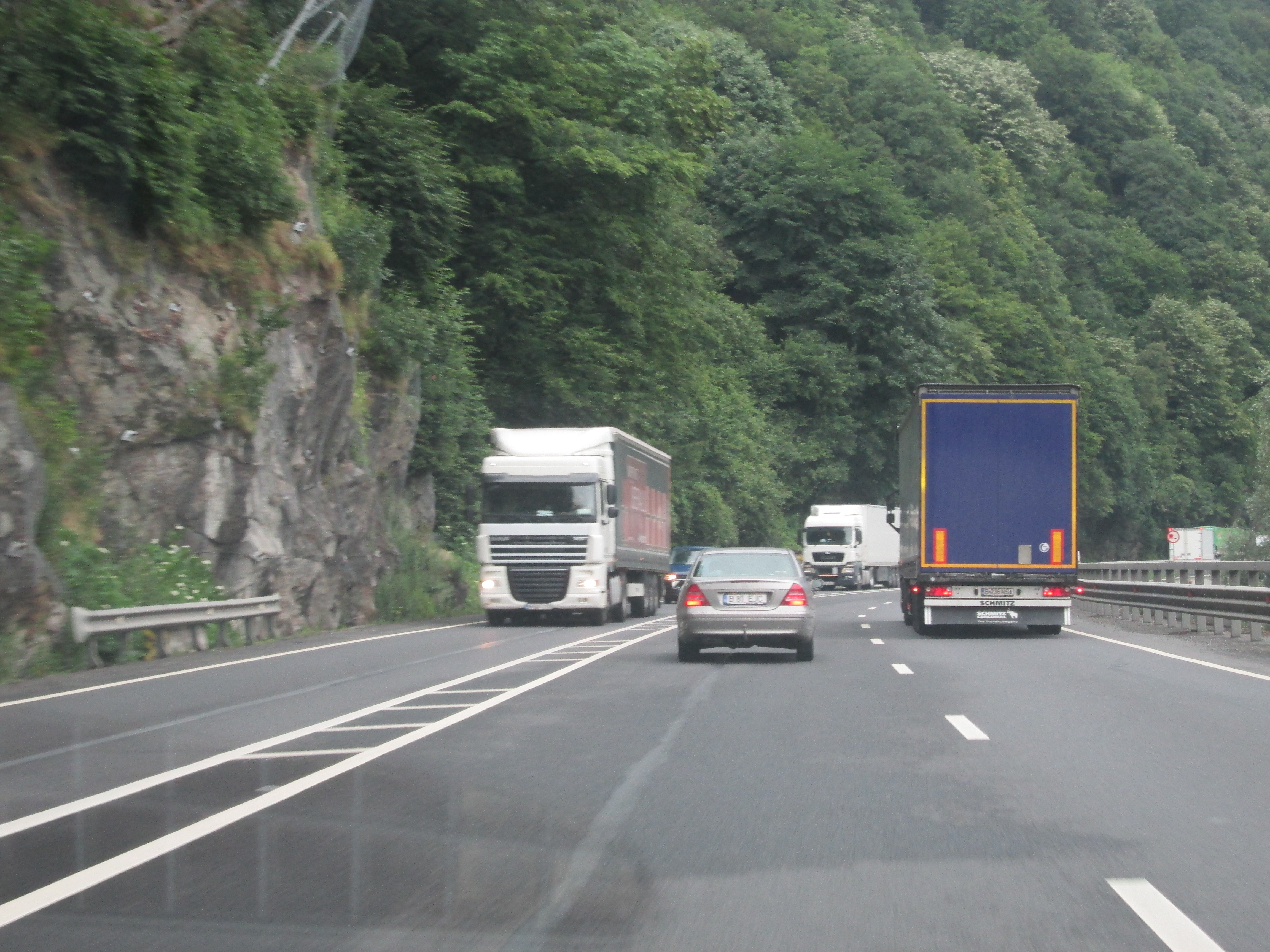 2+1 road section between Lazaret and Turnul Spart, on the DN7 trunk road in Olt Valley, Romania